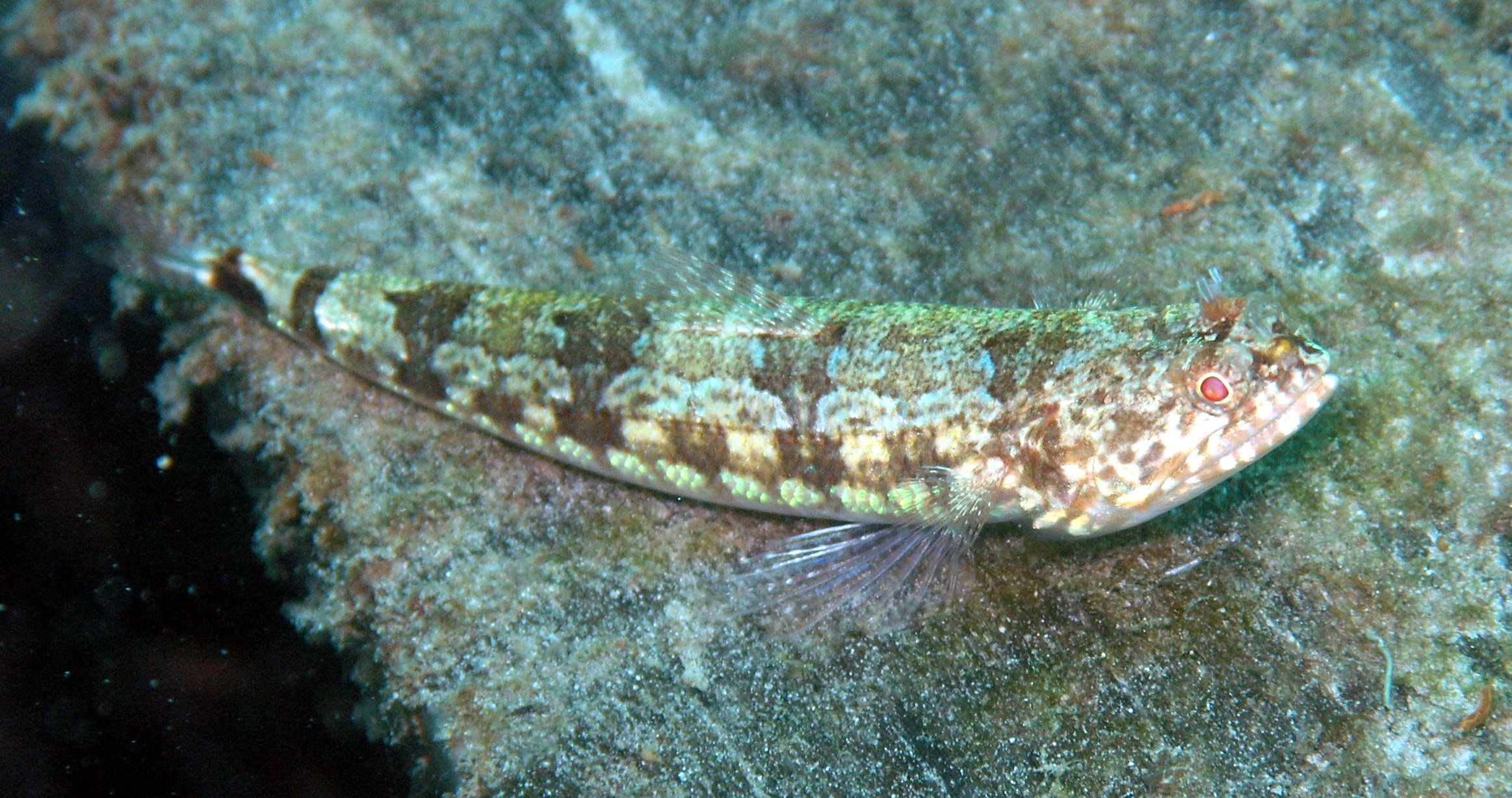 Variegated lizardfish, Synodus variegatus. Taken at Sipadan, Borneo, Malaysia.